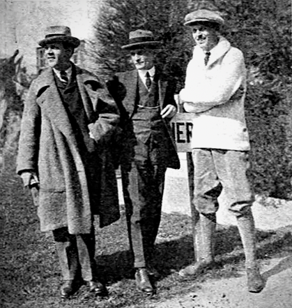 Missouri exhibitor is guest of Film Booking Offices studio in California. Right to left: Emory Johnson, creator or "The Third Alarm", F.B.O Special H.C.Reinke. St Joseph Mo owner of theatres in the middle west and Johnie Walker star in F.B.O. features